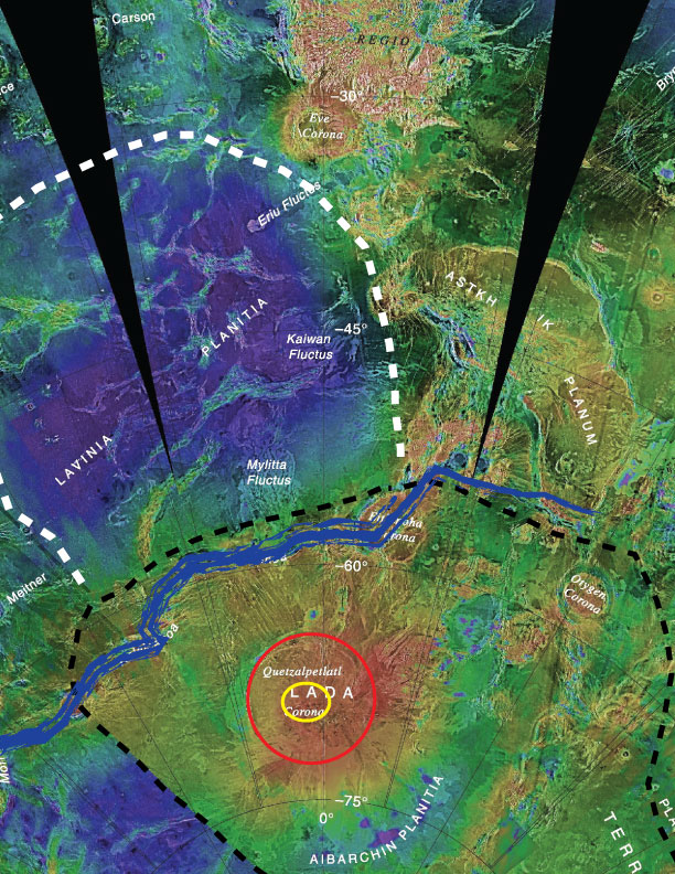 View of the southern hemisphere of Venus with the Lada Terra region outlined as the black dashed lines and the Lavinia Planitia region as the white. The Quetzalpetlatl Corona is in red and the Boala Corona in yellow. Alpha-Lada extension belt is the jagged blue line.